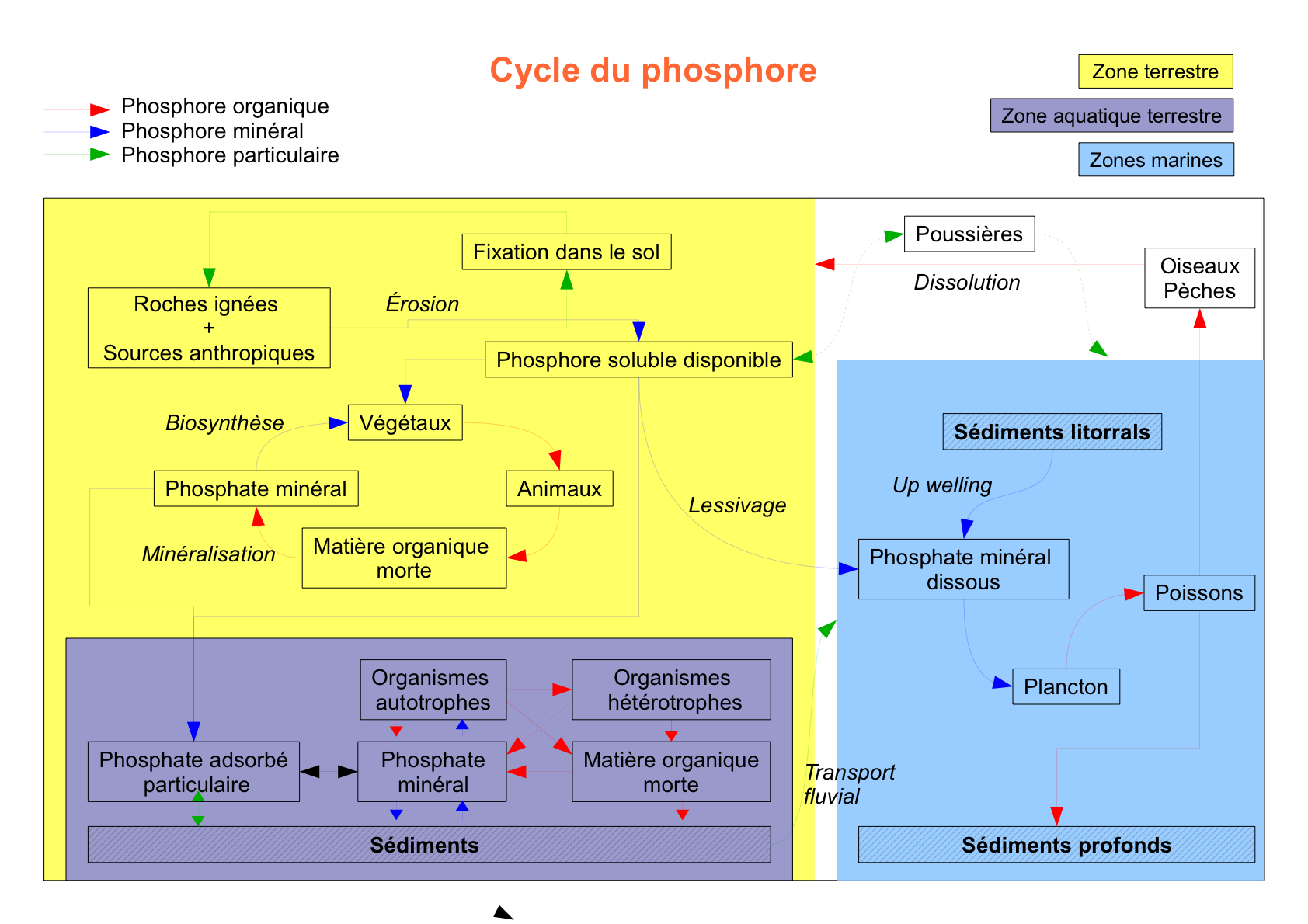 scheme of the phosphor cycle